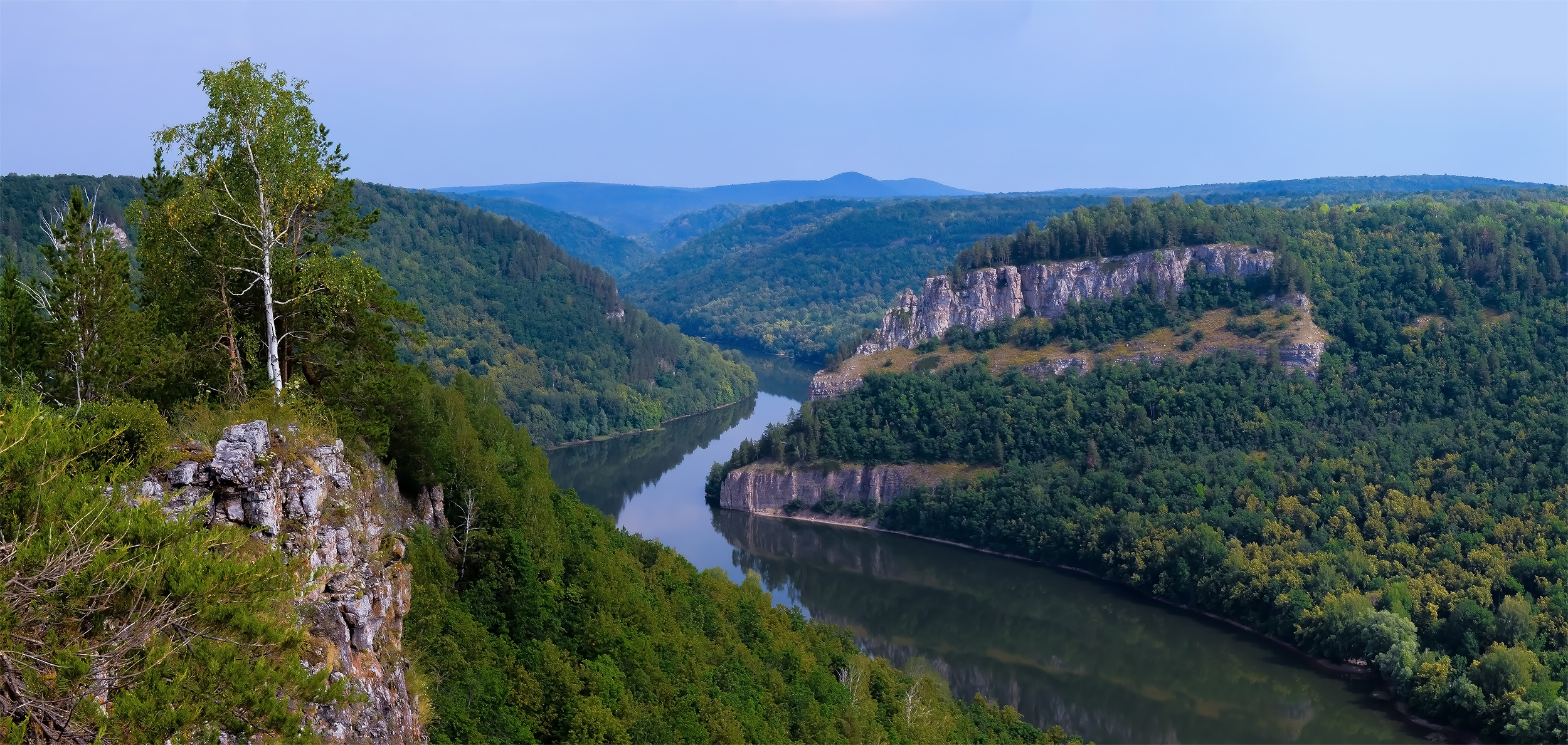 Confluence of rivers Nugush and Uryuk. Sokolinaya rock, Bashkortostan, Russia.